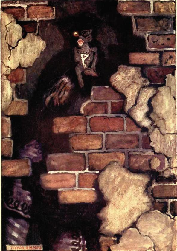 Byam Shaw's illustration for Poe's The Black Cat in "Selected Tales of Mystery" (London : Sidgwick & Jackson, 1909) on the page to face p. 302 with caption "I had walled the monster up within the living tomb!"